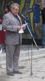 Peter Nedevski